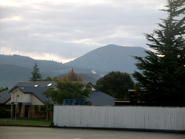 Steam from hillside West of Turangi, photo taken and uploaded by Paul Moss, photographer, artist, Wellington, New Zealand, Rakiura Images